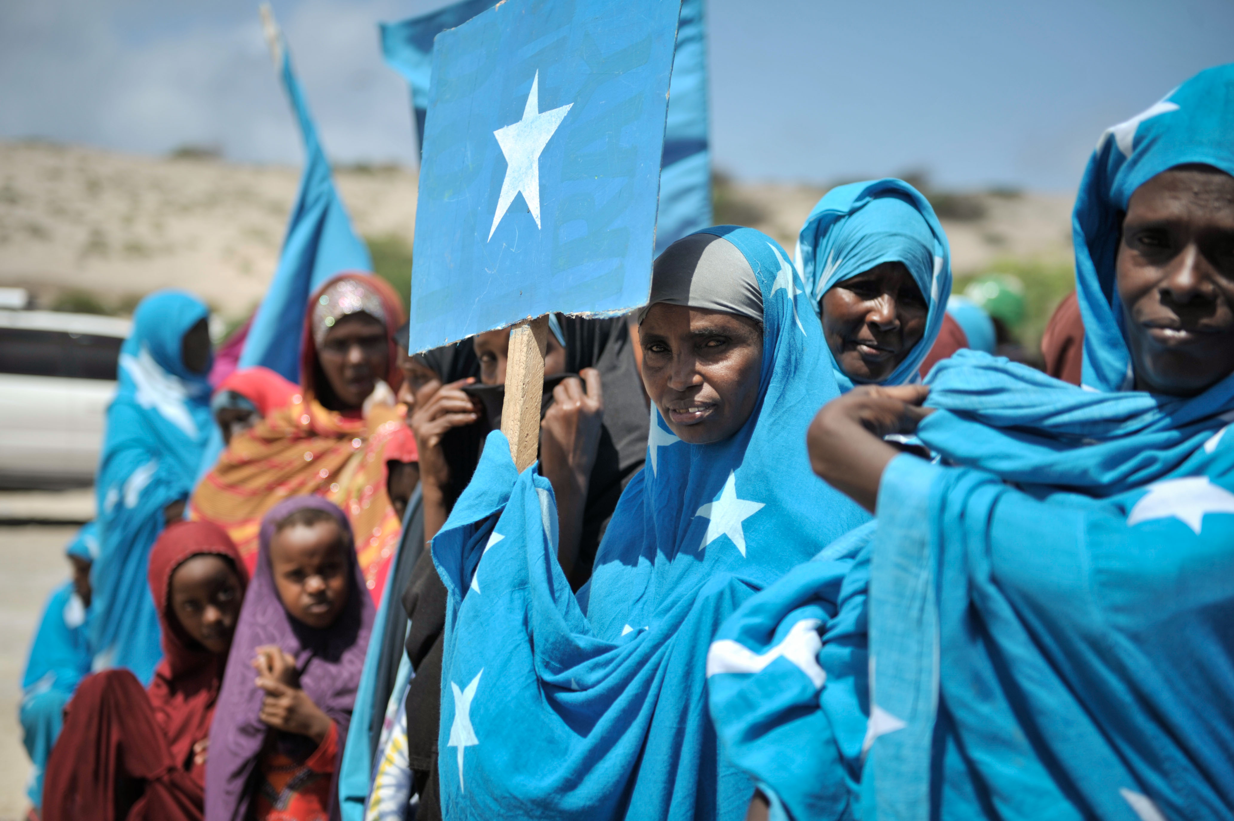 Somali women, wearing clothing with the Somali flag on it, dance and sing at a handover ceremony of a new well donated by the African Union Mission in Somalia to a local community in the country's capital, Mogadishu, on June 5. AMISOM Photo / Tobin Jones